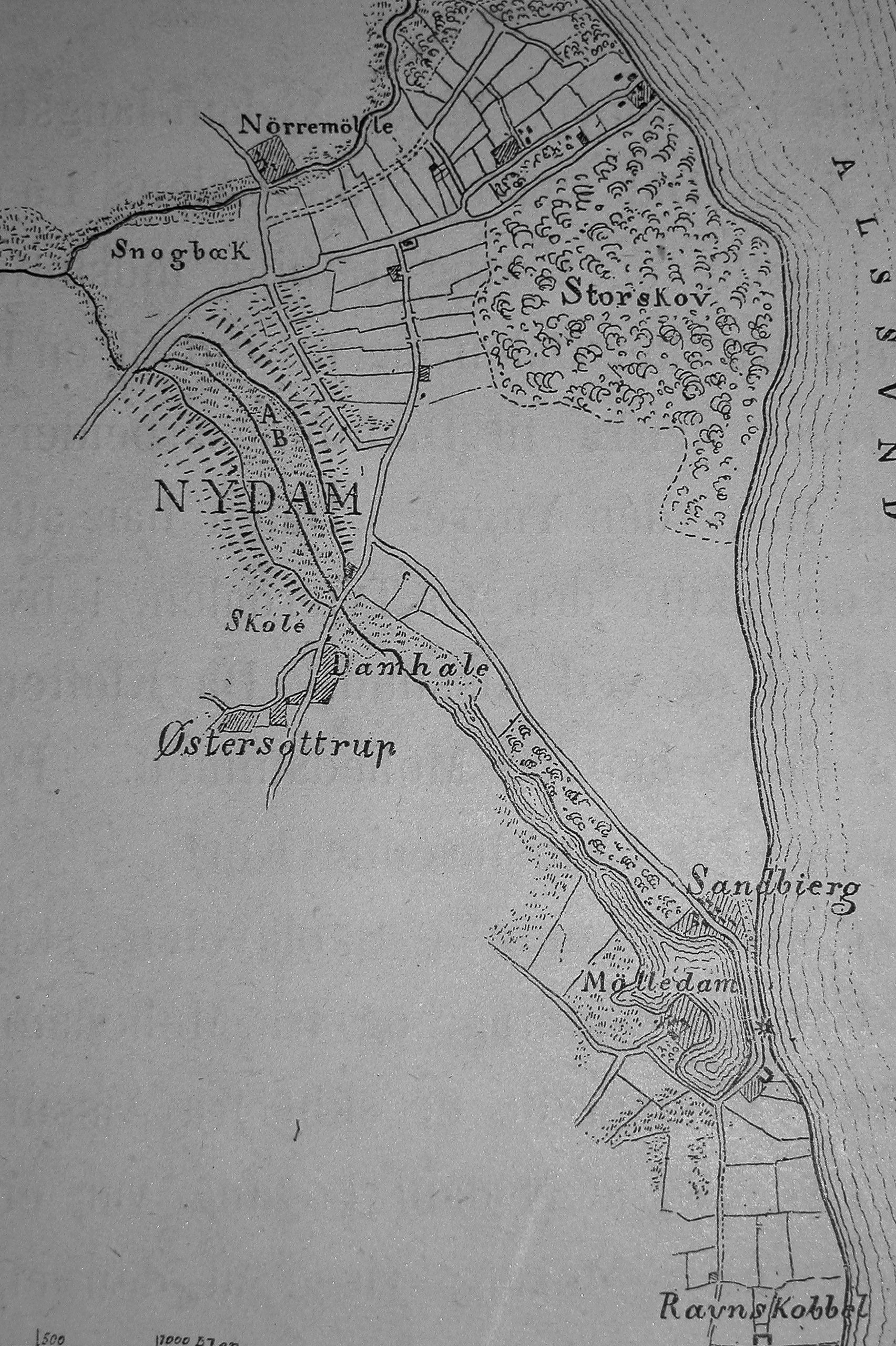 Nydam Mose - Sundeved - Denmark